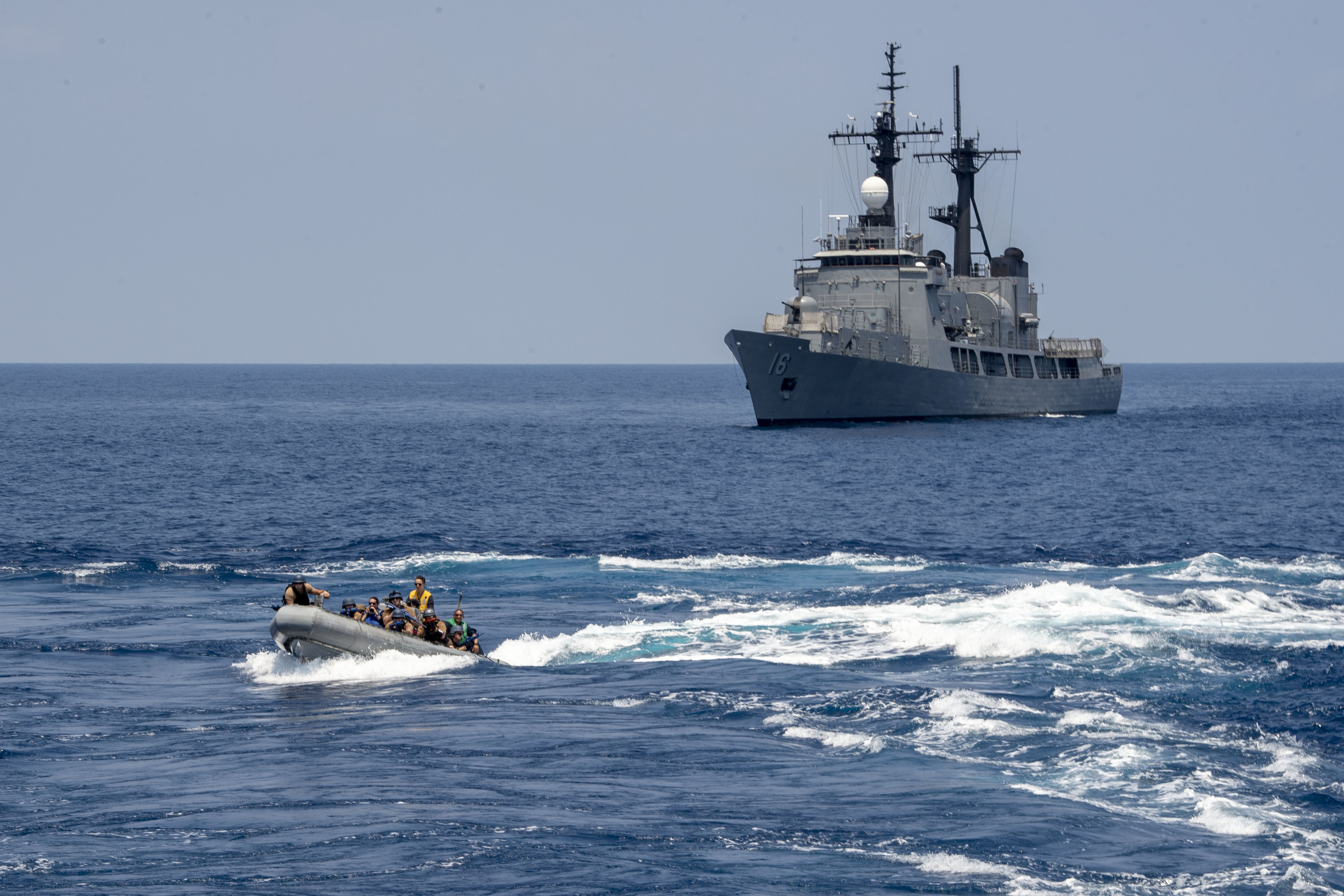 190406-N-UI104-0180 SOUTH CHINA SEA (April 6, 2019) - U.S. Navy Sailors return to the guided-missile destroyer USS Preble (DDG 88) in a rigid-hulled inflatable boat and pass the Philippine Navy offshore patrol vessel BRP Ramon Alcatraz (PS 16) after completing a visit, board, search, and seizure drill in support of Exercise Balikatan. In its 35th iteration, Balikatan is an annual U.S.-Philippine military training exercise focused on a variety of missions, including humanitarian assistance and disaster relief, counter-terrorism, and other combined military operations. (U.S. Navy photo by Mass Communication Specialist 1st Class Bryan Niegel)